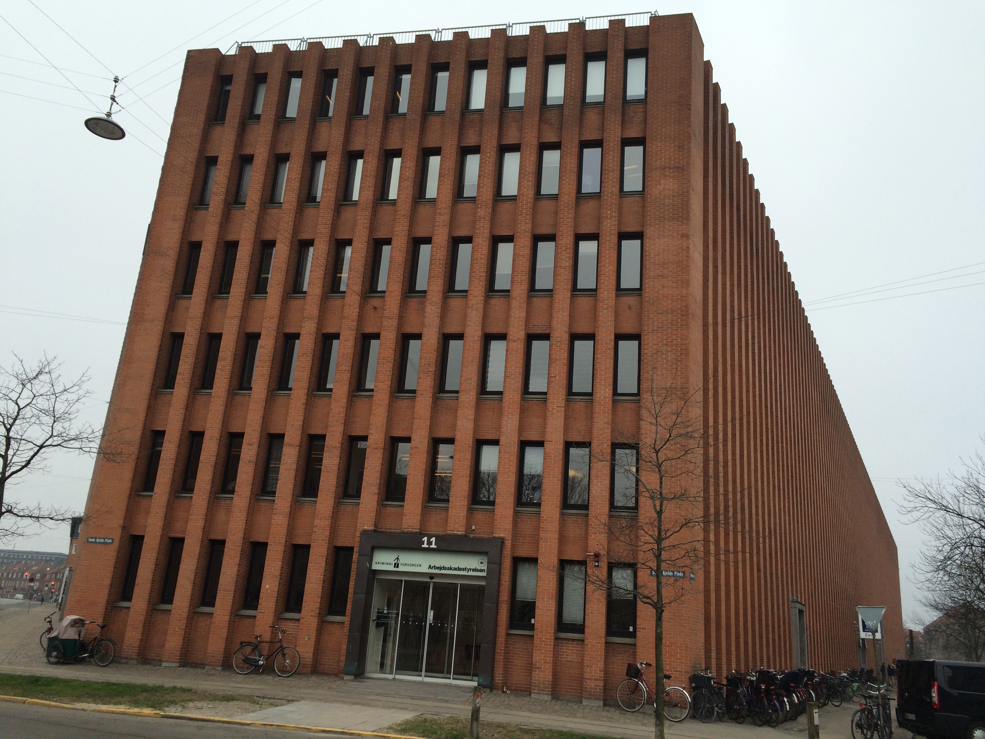 Arbejdsskadestyrelsen - Office of work related injuries in Copenhagen, Denmark